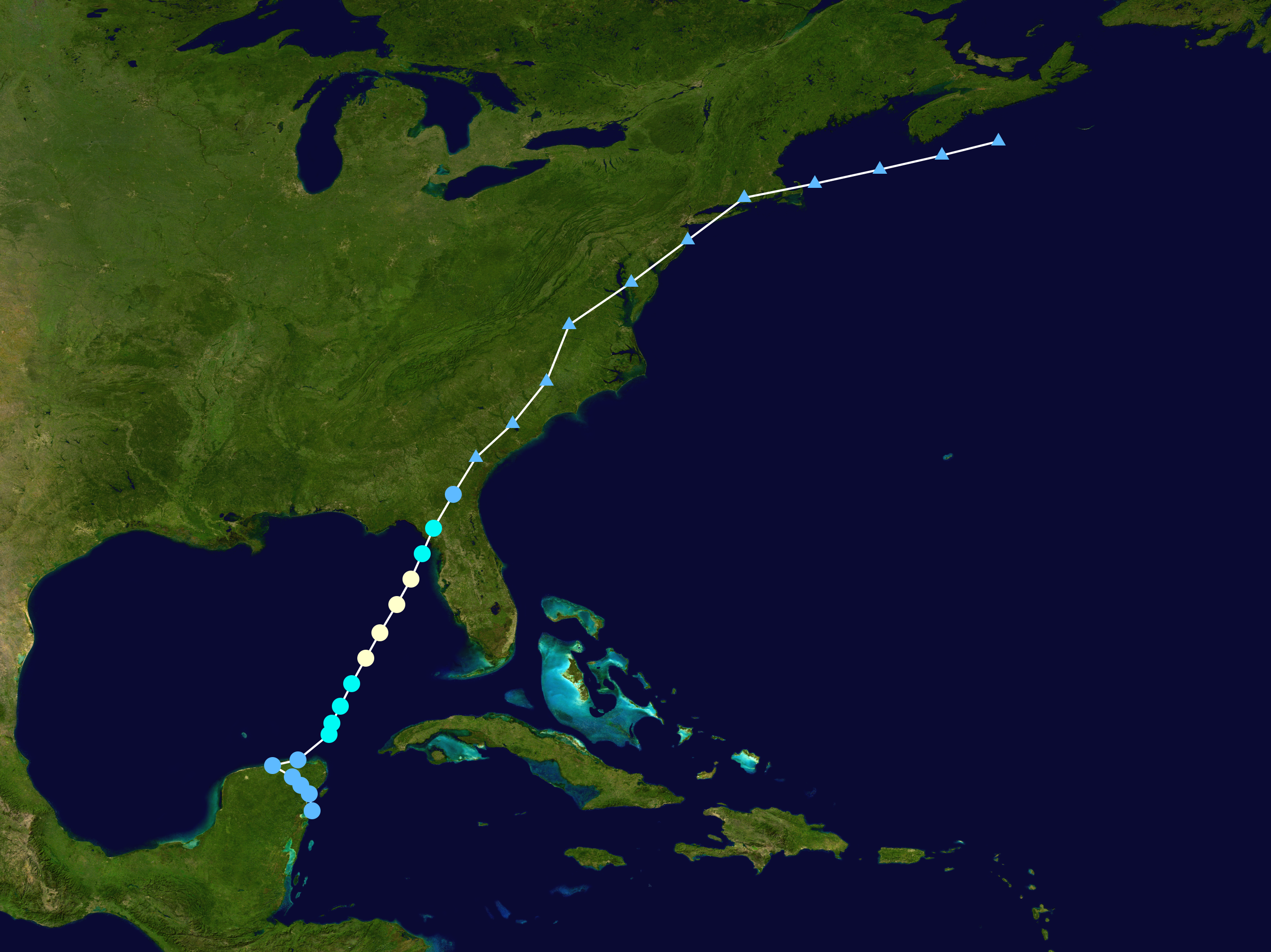 Track map of Hurricane Gordon of the 2000 Atlantic hurricane season. The points show the location of the storm at 6-hour intervals. The colour represents the storm's maximum sustained wind speeds as classified in the Saffir–Simpson scale (see below), and the shape of the data points represent the nature of the storm, according to the legend below. Saffir–Simpson scale Tropical depression≤38 mph≤62 km/h Category 3111–129 mph178–208 km/h Tropical storm39–73 mph63–118 km/h Category 4130–156 mph209–251 km/h Category 174–95 mph119–153 km/h Category 5≥157 mph≥252 km/h Category 296–110 mph154–177 km/h Unknown Storm type Tropical cyclone Subtropical cyclone Extratropical cyclone / Remnant low / Tropical disturbance